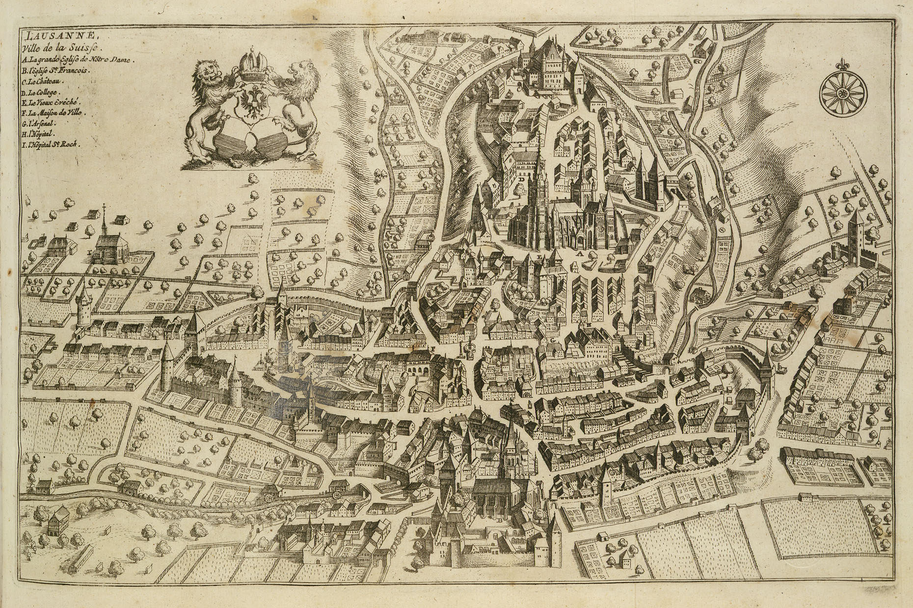 Plan of Lausanne, 1779 (1654?)